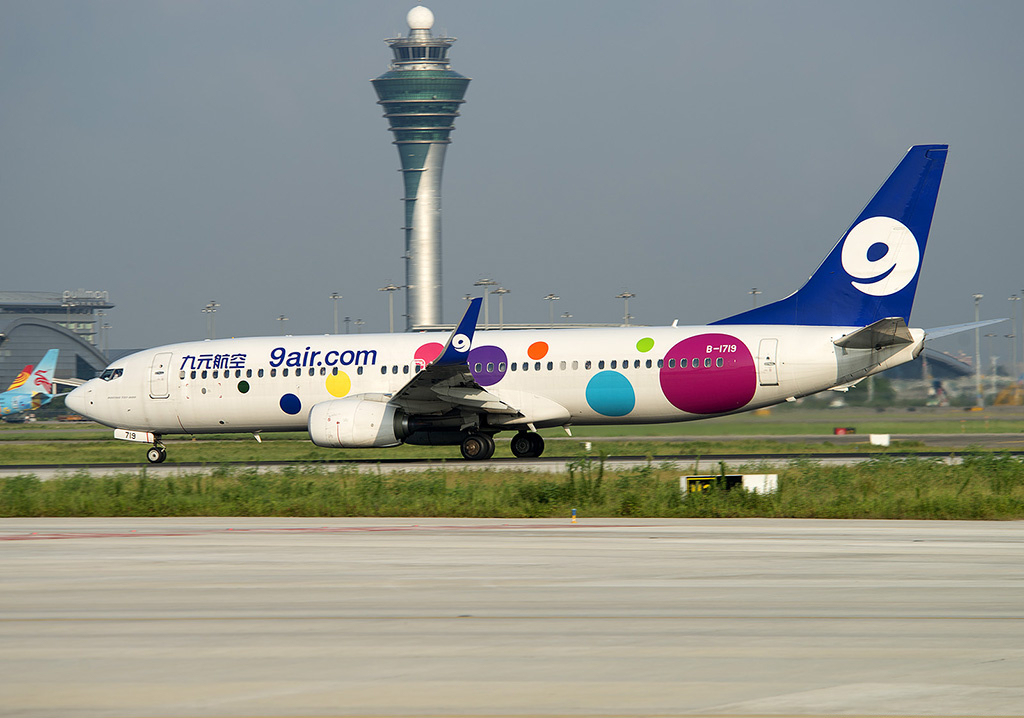 9Air Boeing 737-800 at Guangzhou Baiyun